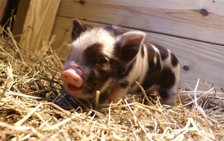 Arapawa Pigglet.